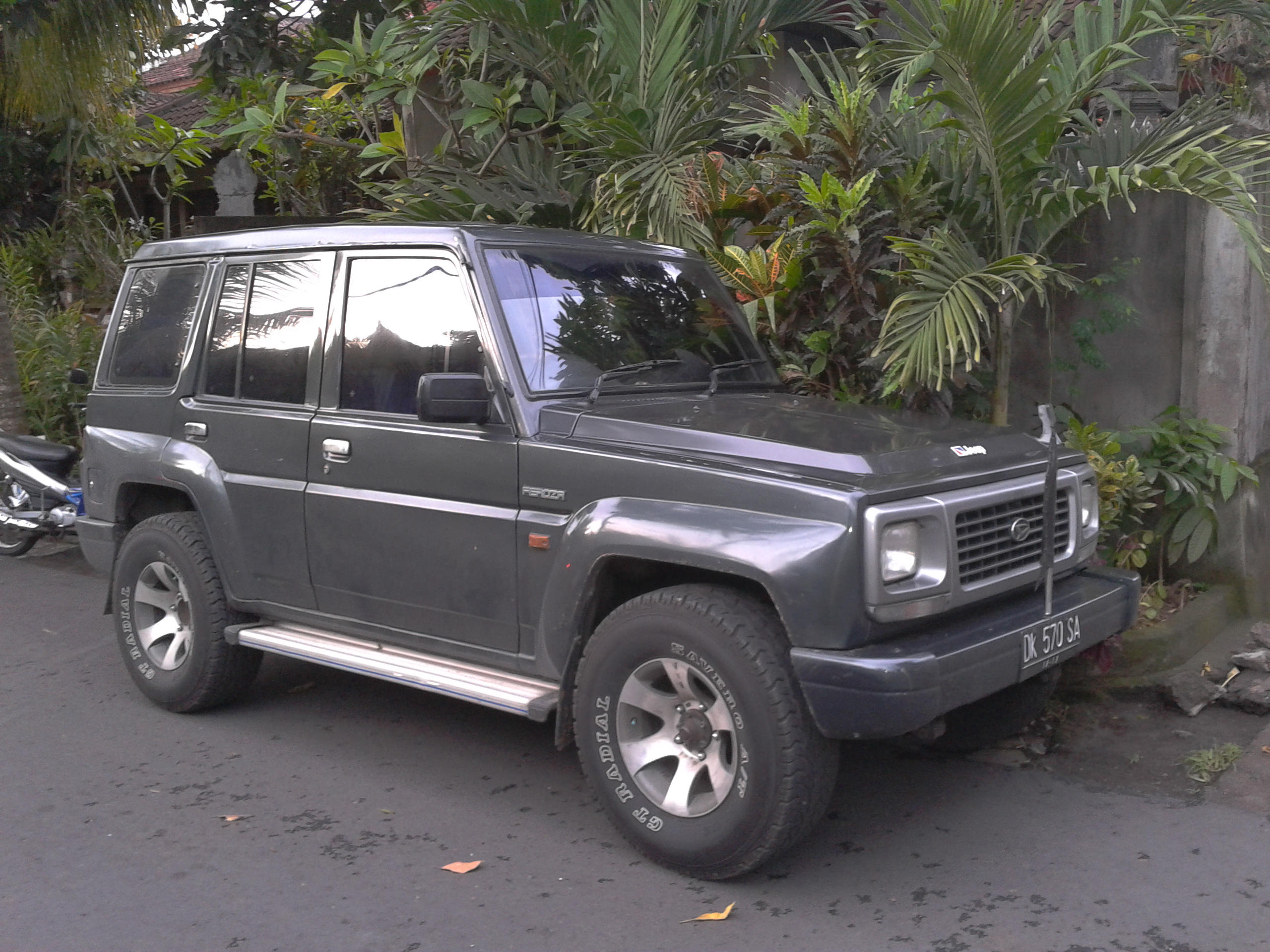 Rare 5-door Daihatsu Feroza spotted in Karangasem, end of February 2013. Less common than 3-door Daihatsu Feroza. Note the Jeep logo put by owner on bonnet